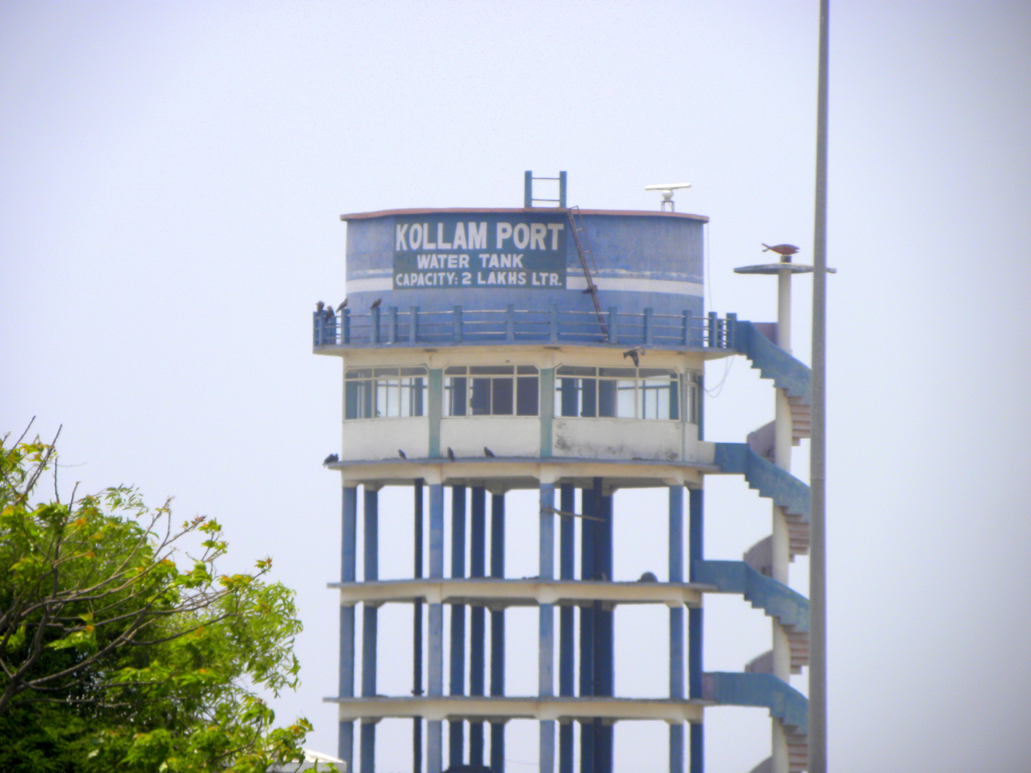 Kollam Port is one of the ancient ports in India, established on AD.825